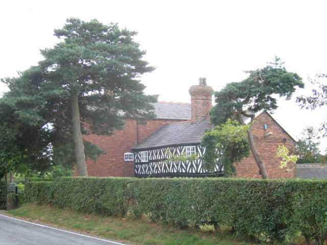 Church House, Warmingham. A partly half-timbered house opposite St Leonard's church.